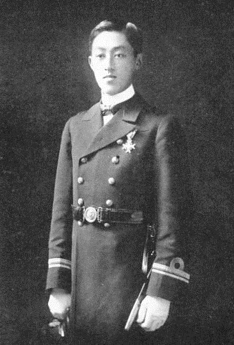 Tadashige Shimazu